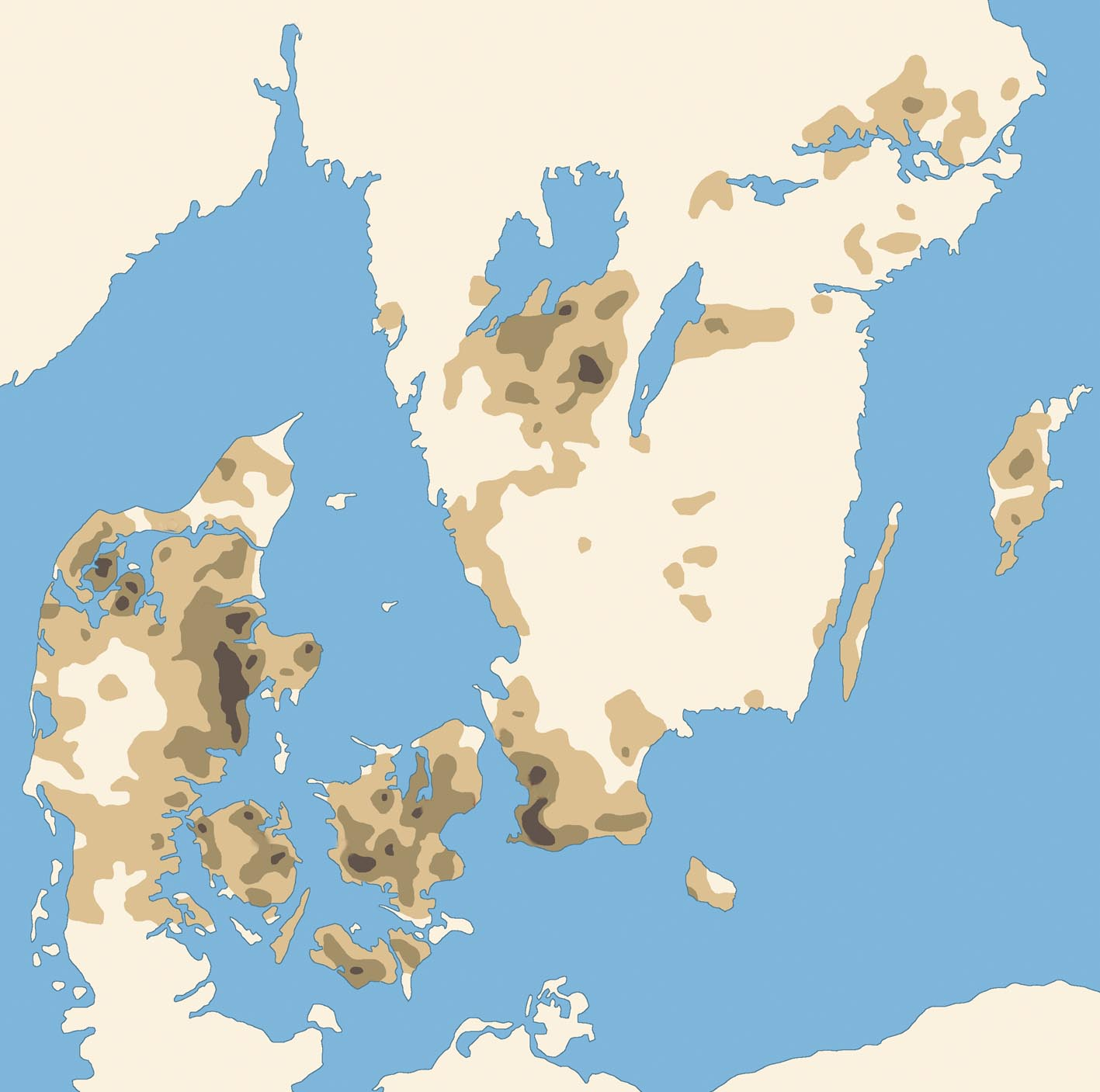 Map of possible early medieval churches (i.e. from Scandinavian viking age) in Denmark and southern Sweden. Calculations are based om parish churches outside cities, known from late medieval written sources (after 1200). Darkest color represents churches closer than 2,5 km from each other. Middle-color represents 2,5-5 km distance, and brightest color represents churches with 5-7,5 km distance from each other. (Archeological findings of christian burial from latest the year 1000 in Torsåker parish in Ångermanland county, and several stone-churches and parishes from 12th and 13th century, shows that early medieval churches also may have occured in central northern Sweden.)